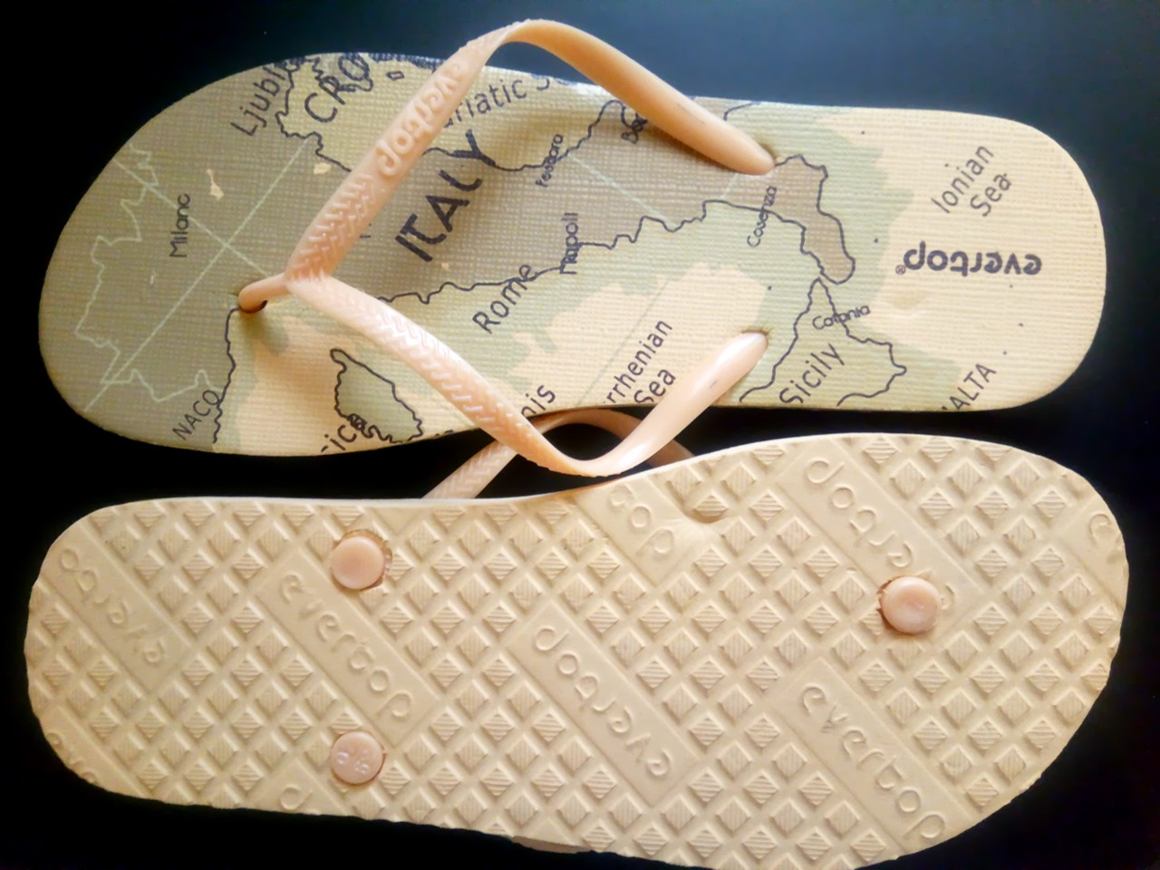 Flip flops, seen on both sides, characterized by a geographic print.